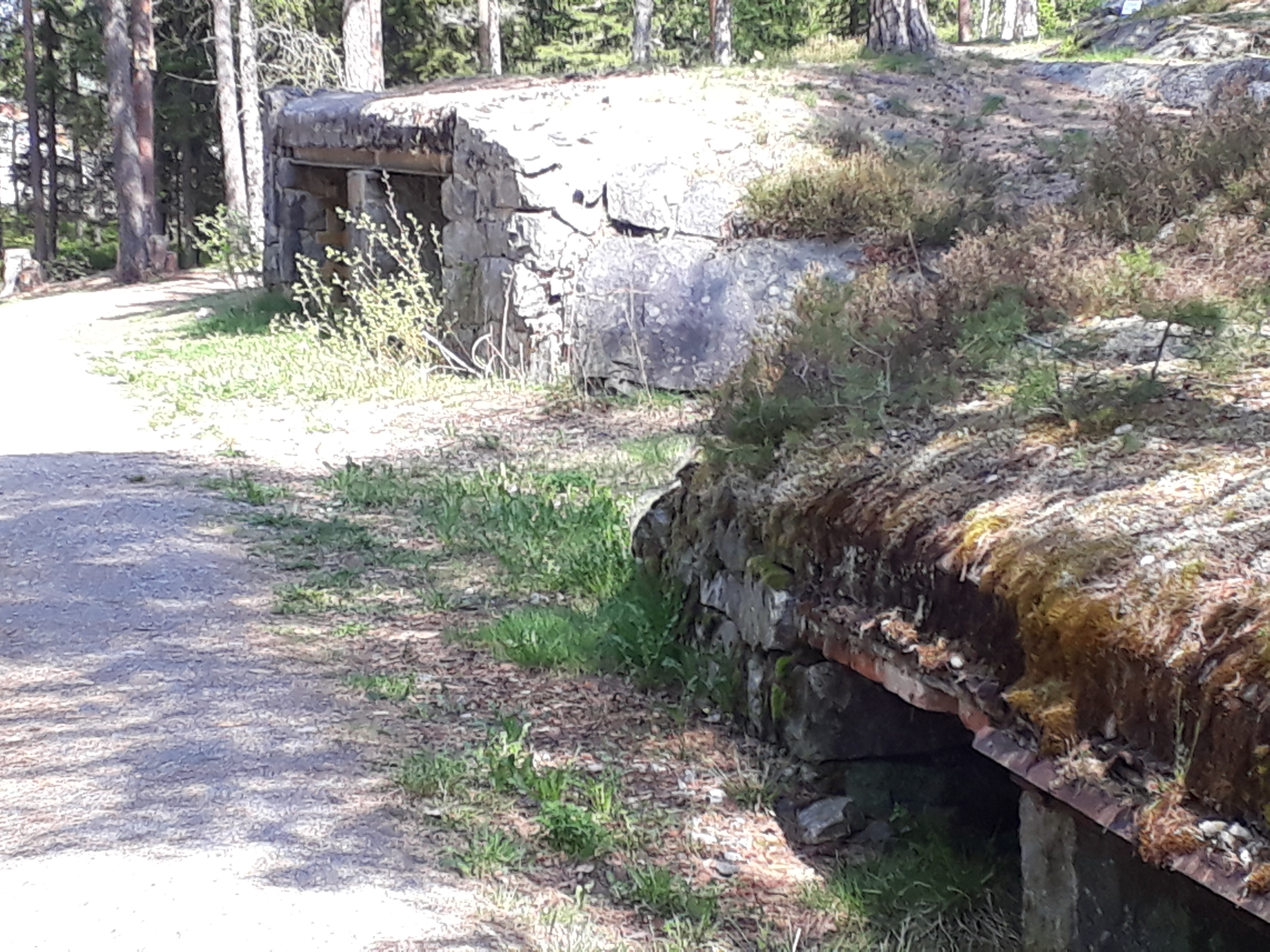 Gråkollen battery